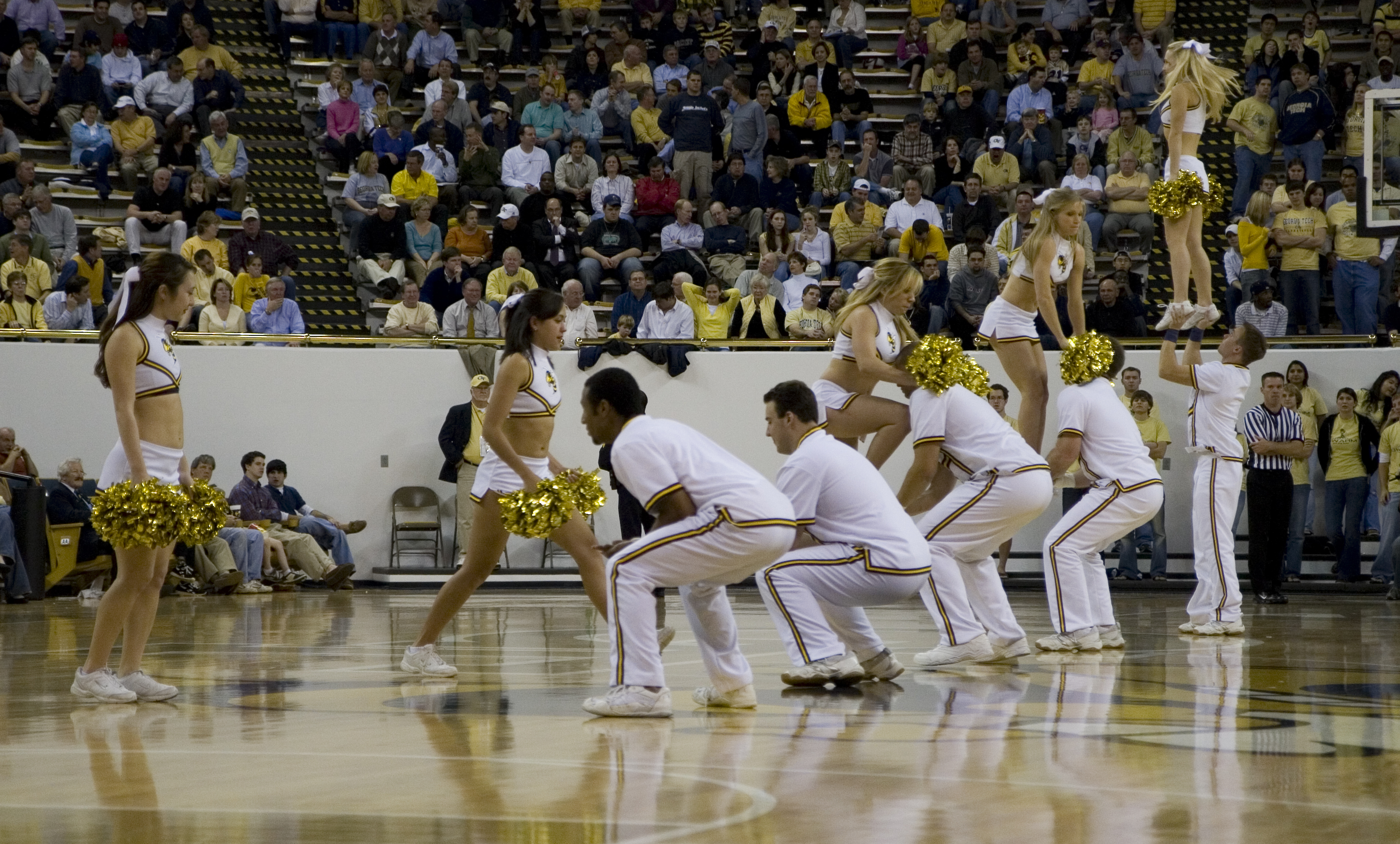 Georgia Tech Yellow Jacket cheerleaders at a en:2006-07 Georgia Tech Yellow Jackets men's basketball team game vs Centenary